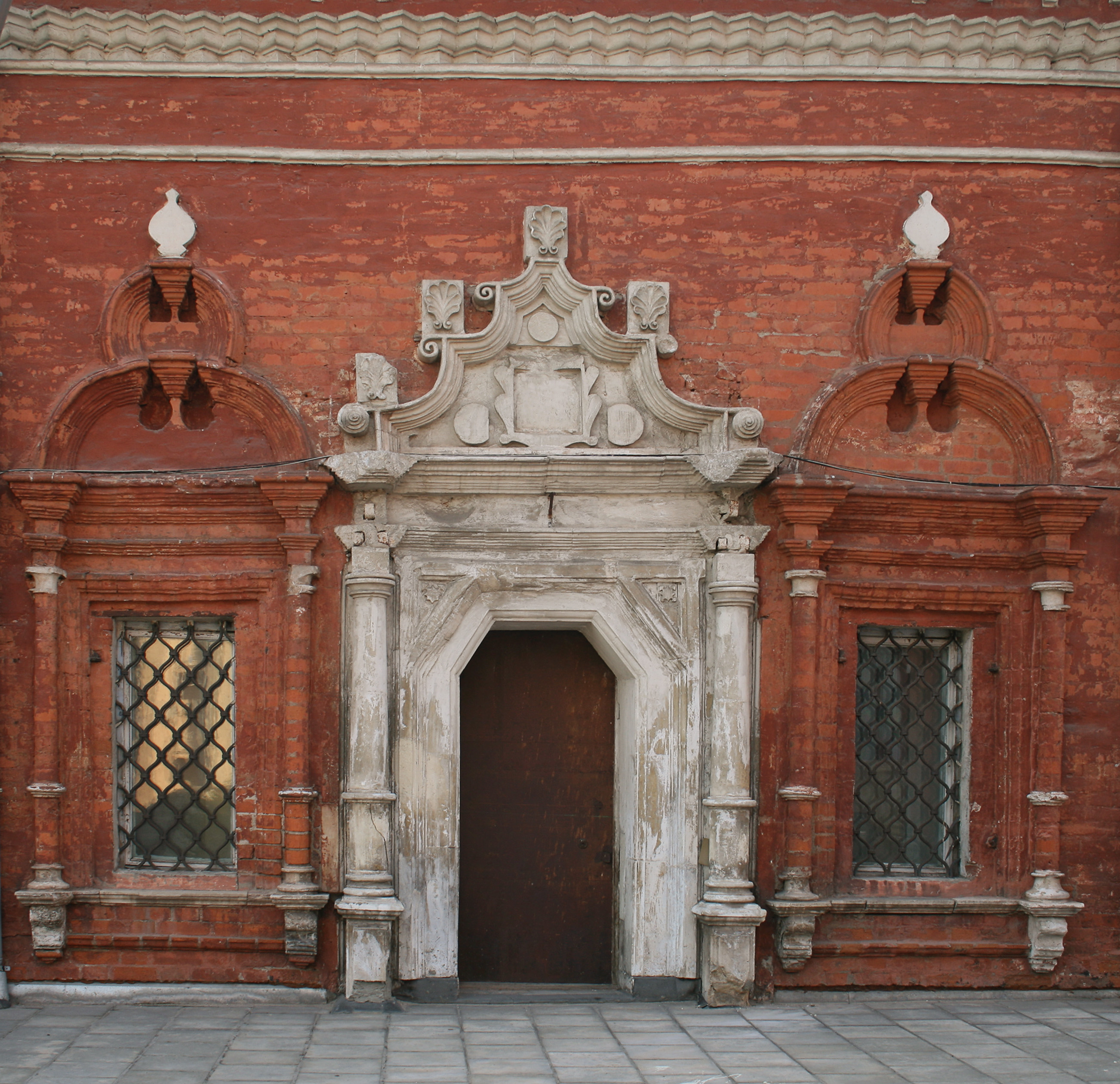 Vysokopetrovsky Monastery, Naryshkins Cells (fragment)